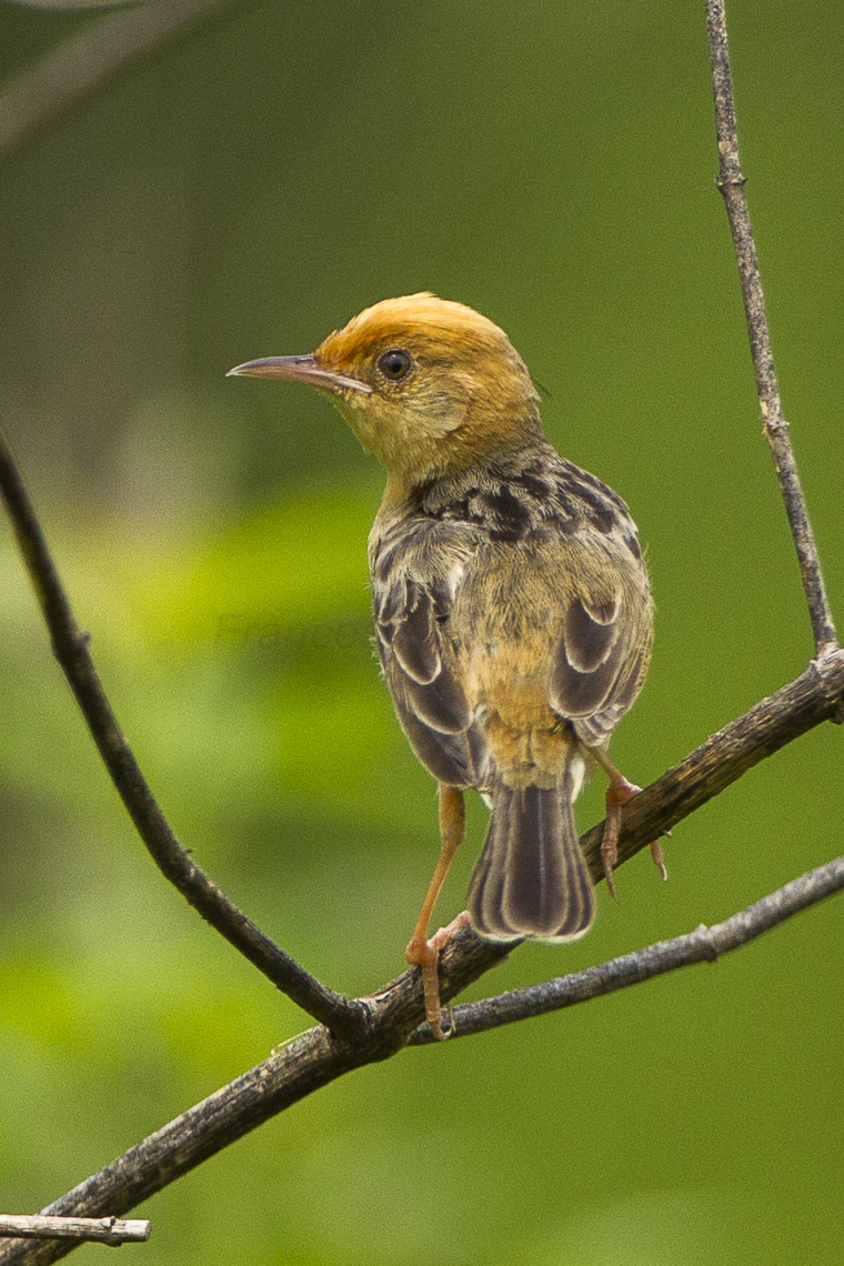 Golden-headed Cisticola - Thailand_S4E5603